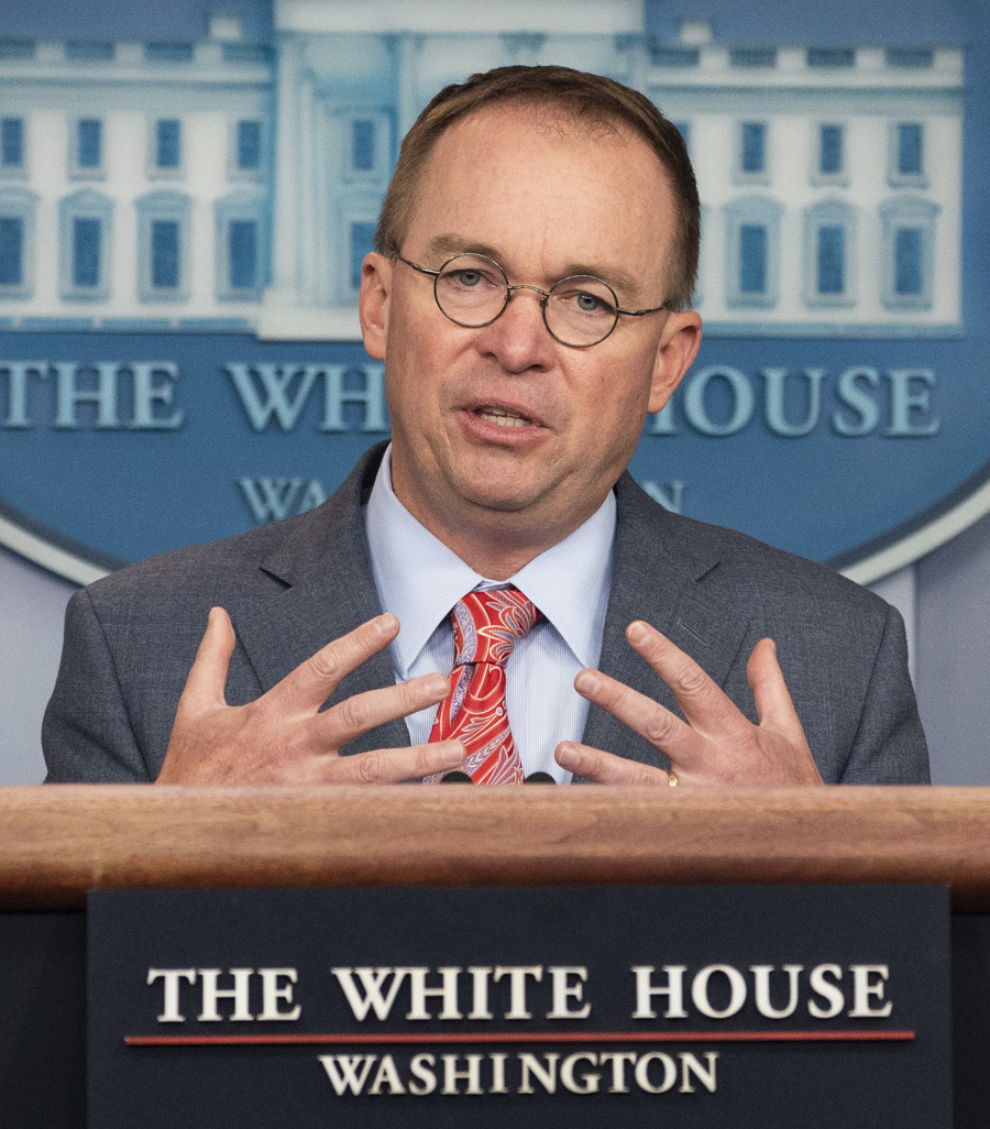 White House acting Chief of Staff Mick Mulvaney speaks with reporters Thursday, Oct. 17, 2019, in the James S. Brady Press Briefing Room at the White House. (Official White House Photo by Joyce N. Boghosian)